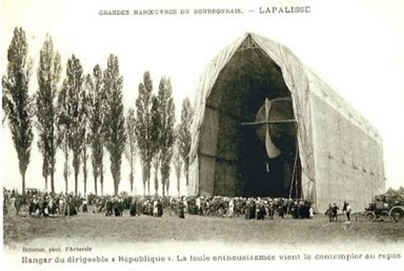 Temporary field hangar erected at Lapalisse, France, for the Lebaudy République during the military manoeuvres 1909